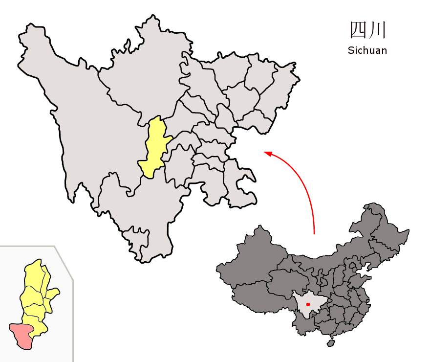 Location of Shimian County (pink) and Ya'an Prefecture (yellow) within Sichuan province of China Map drawn in october 2007 using various sources, mainly : Sichuan province administrative regions GIS data: 1:1M, County level, 1990 Sichuan Counties map from